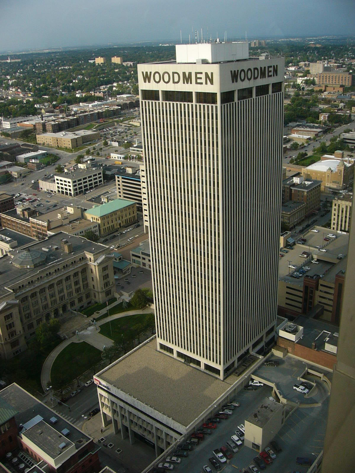 Woodmen Tower in Omaha, Nebraska, as seen from the First National Tower.